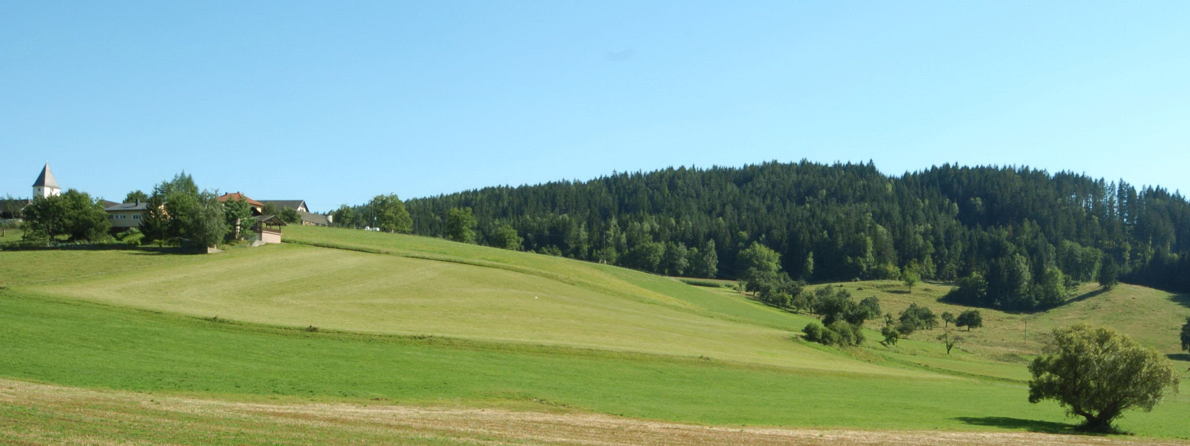 Square closure at Saint Peter on the Bichl in the community of Klagenfurt, Carinthia, Austria